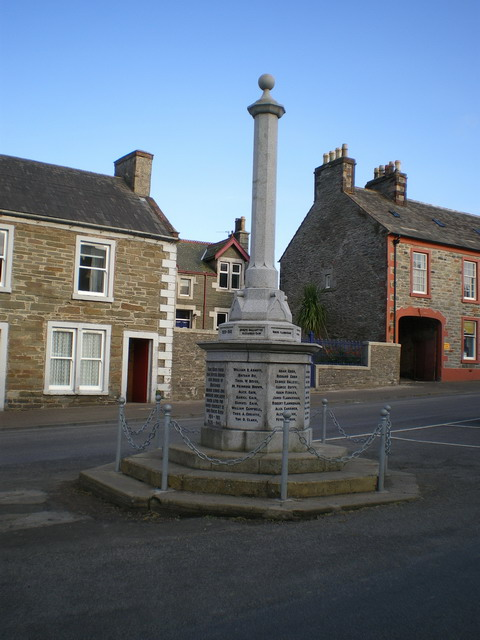 Whithorn War Memorial This stands in the centre of the village street.